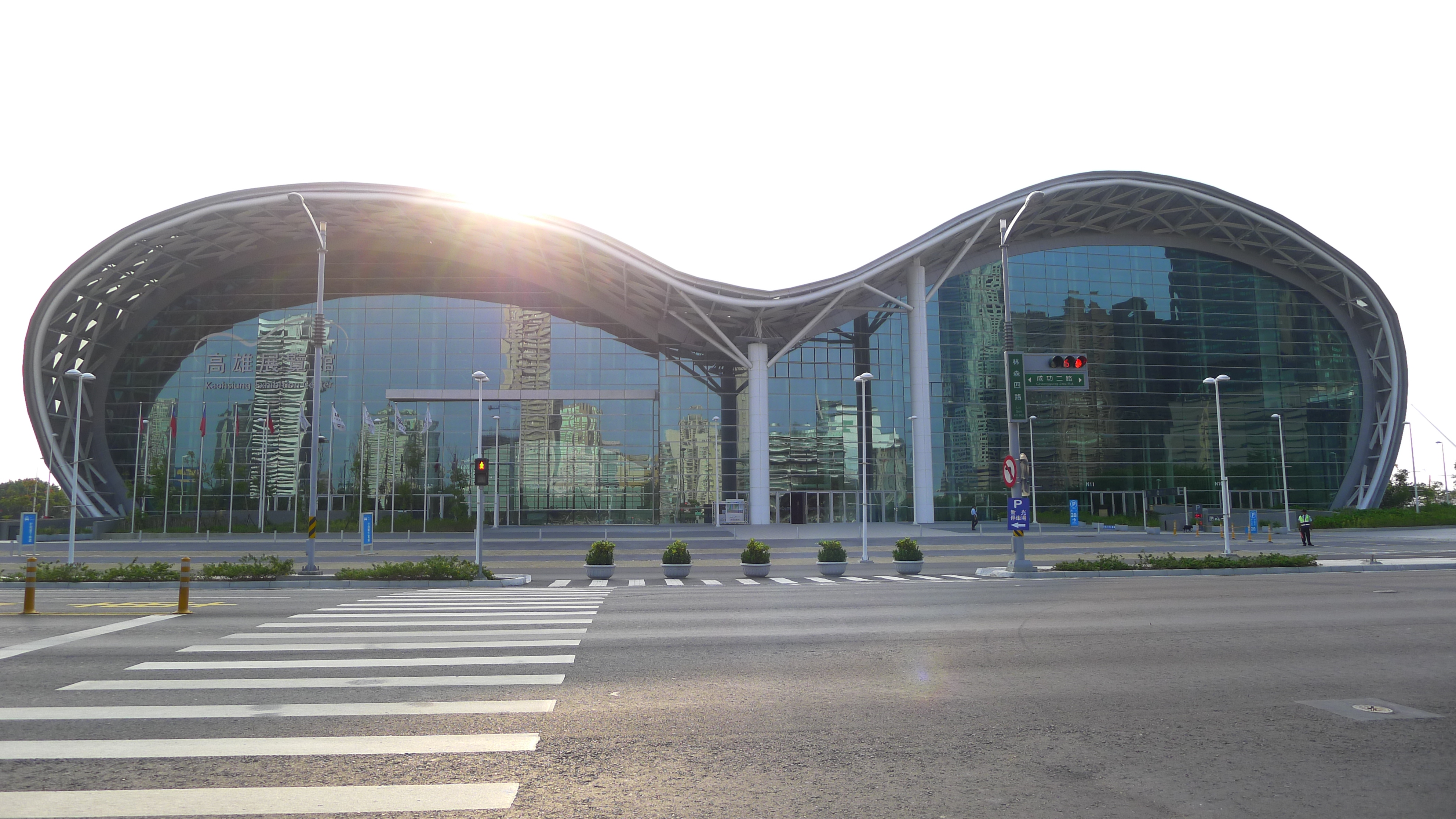 Front side of the Kaohsiung Exhibition Center